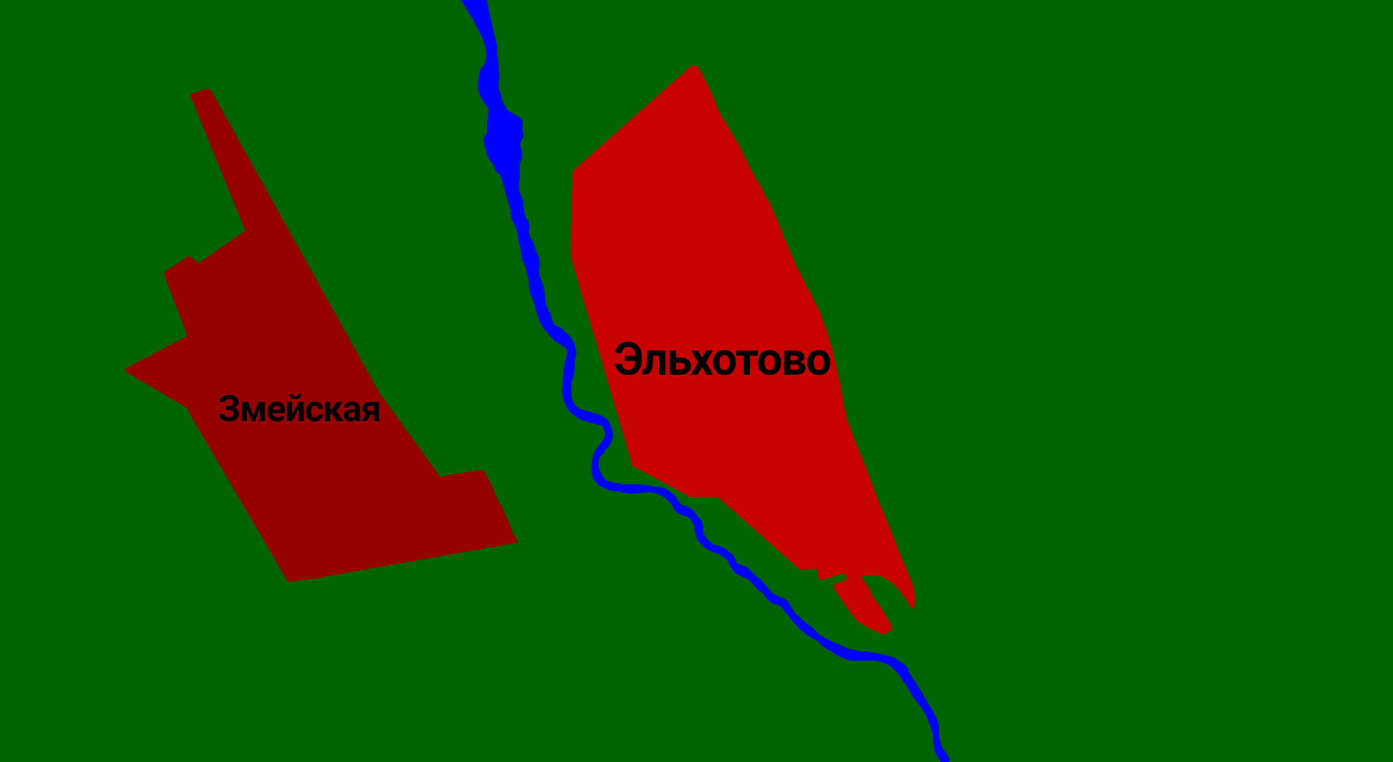 Map of Elkhotovo